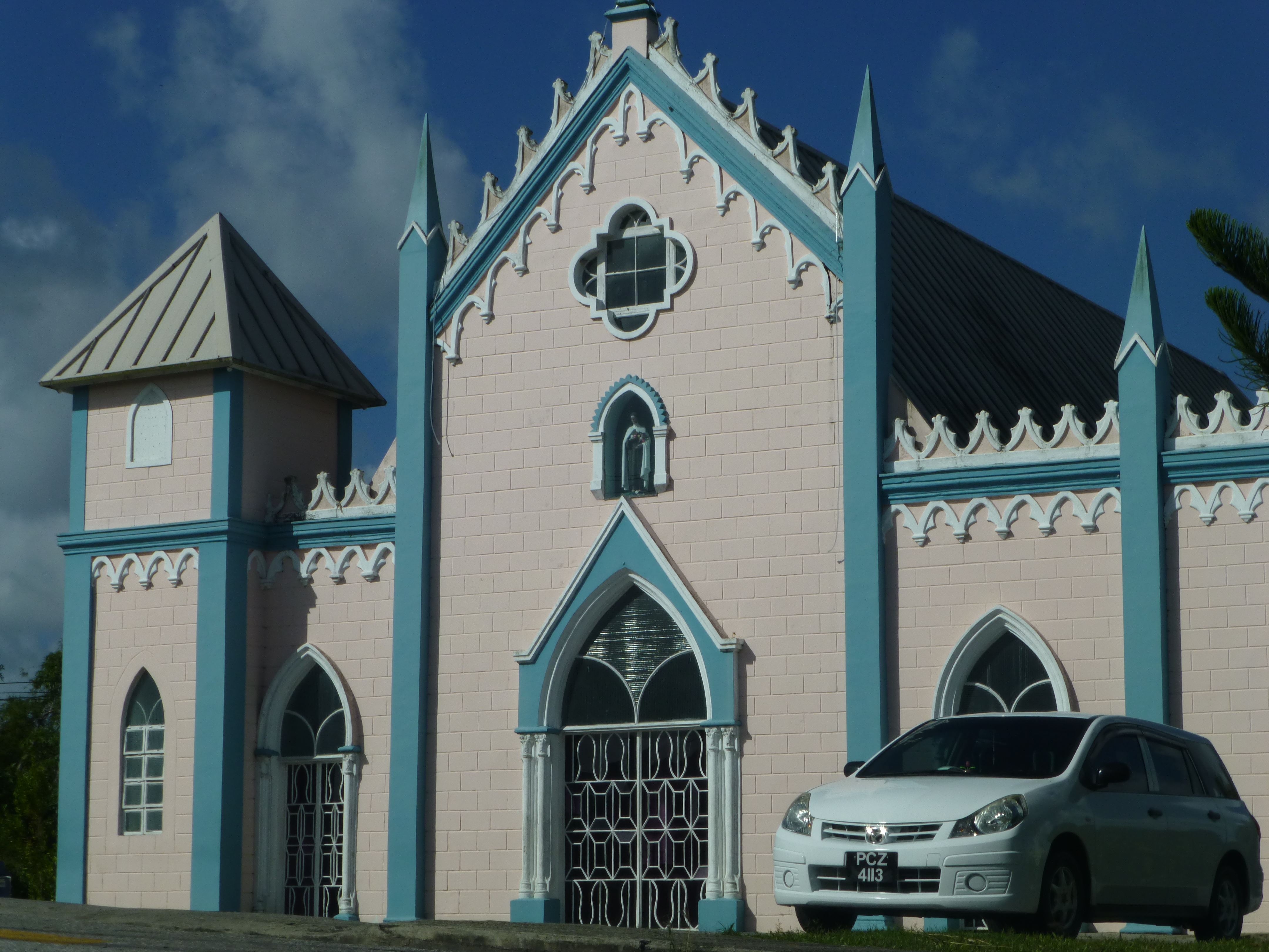 St. Theresa's Roman Catholic Church, Rio Claro, Trinidad.